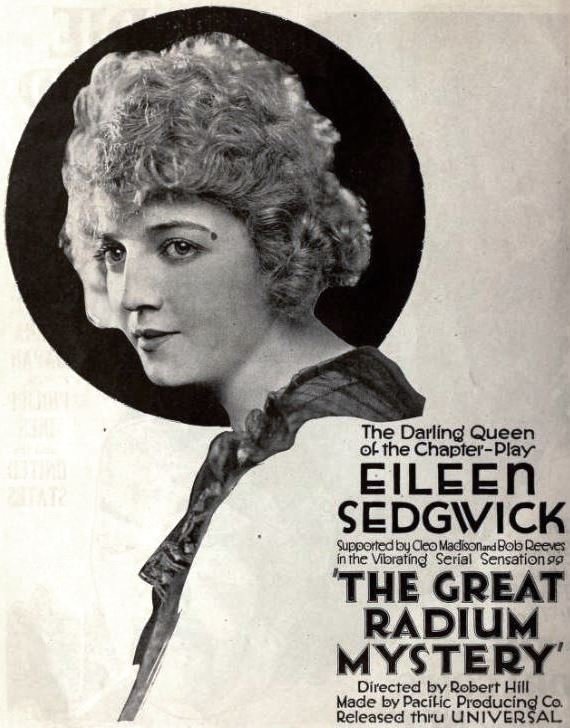 Advertisement for the American film serial The Great Radium Mystery (1919) with Eileen Sedgwick, on page 6 of the November 6, 1920 The Moving Picture Weekly.